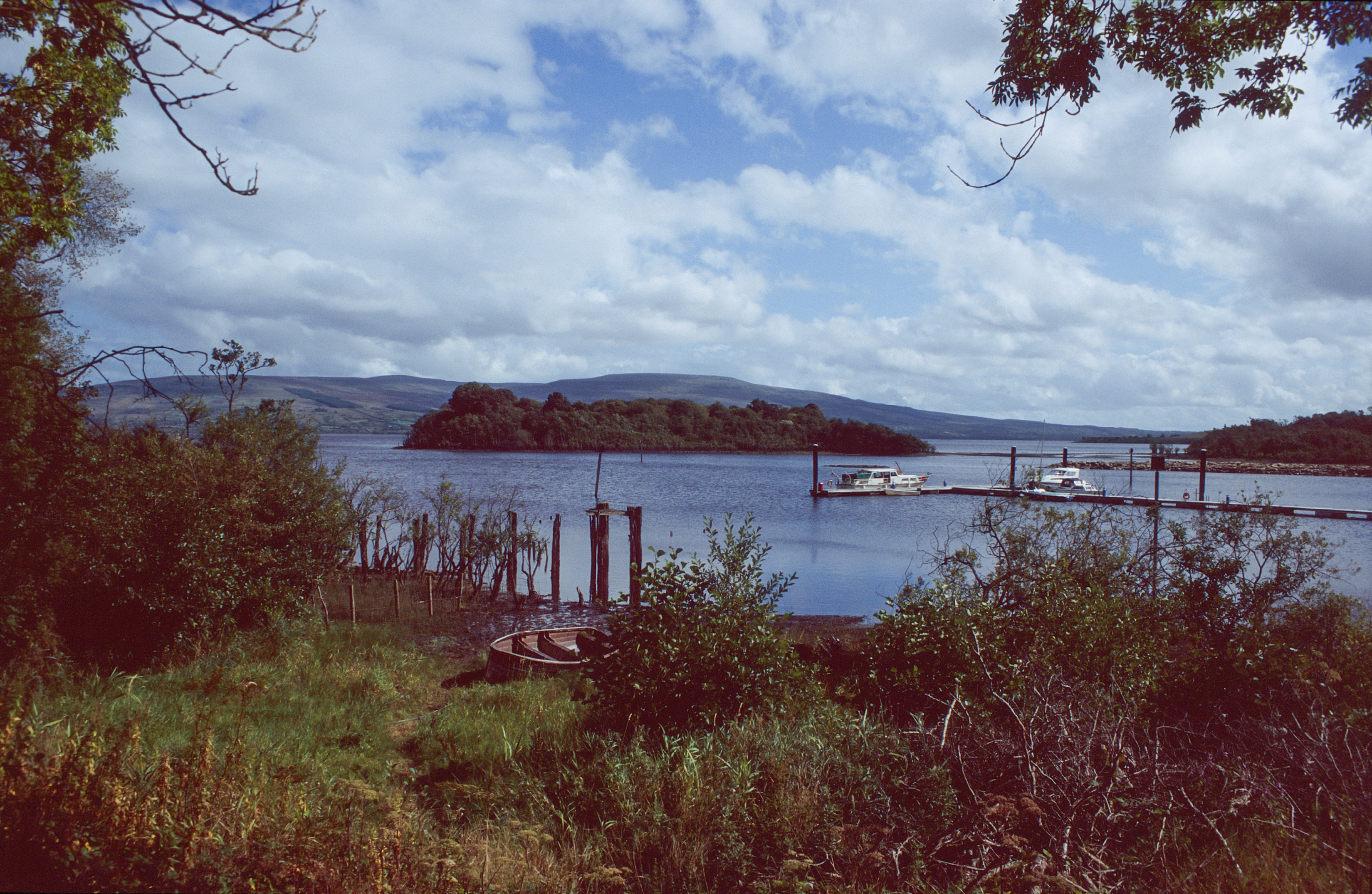 View of Spencer Harbour and Corry Island, Lough Allen.